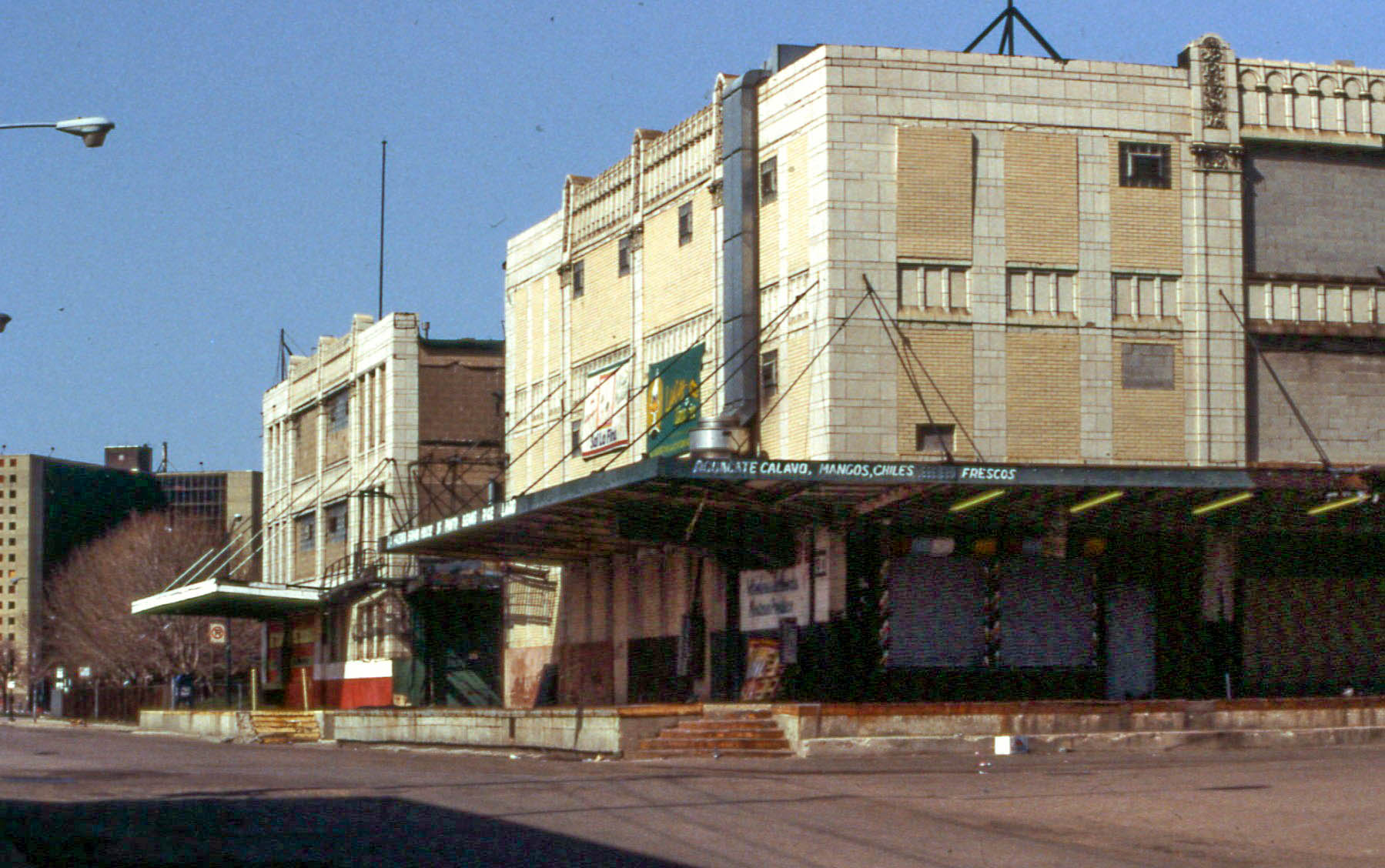 20010414 12 South Water Market Chicago